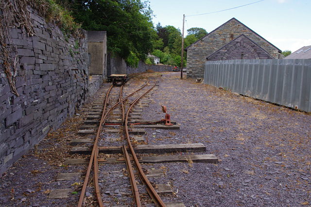 Penrhyn Quarry Railway